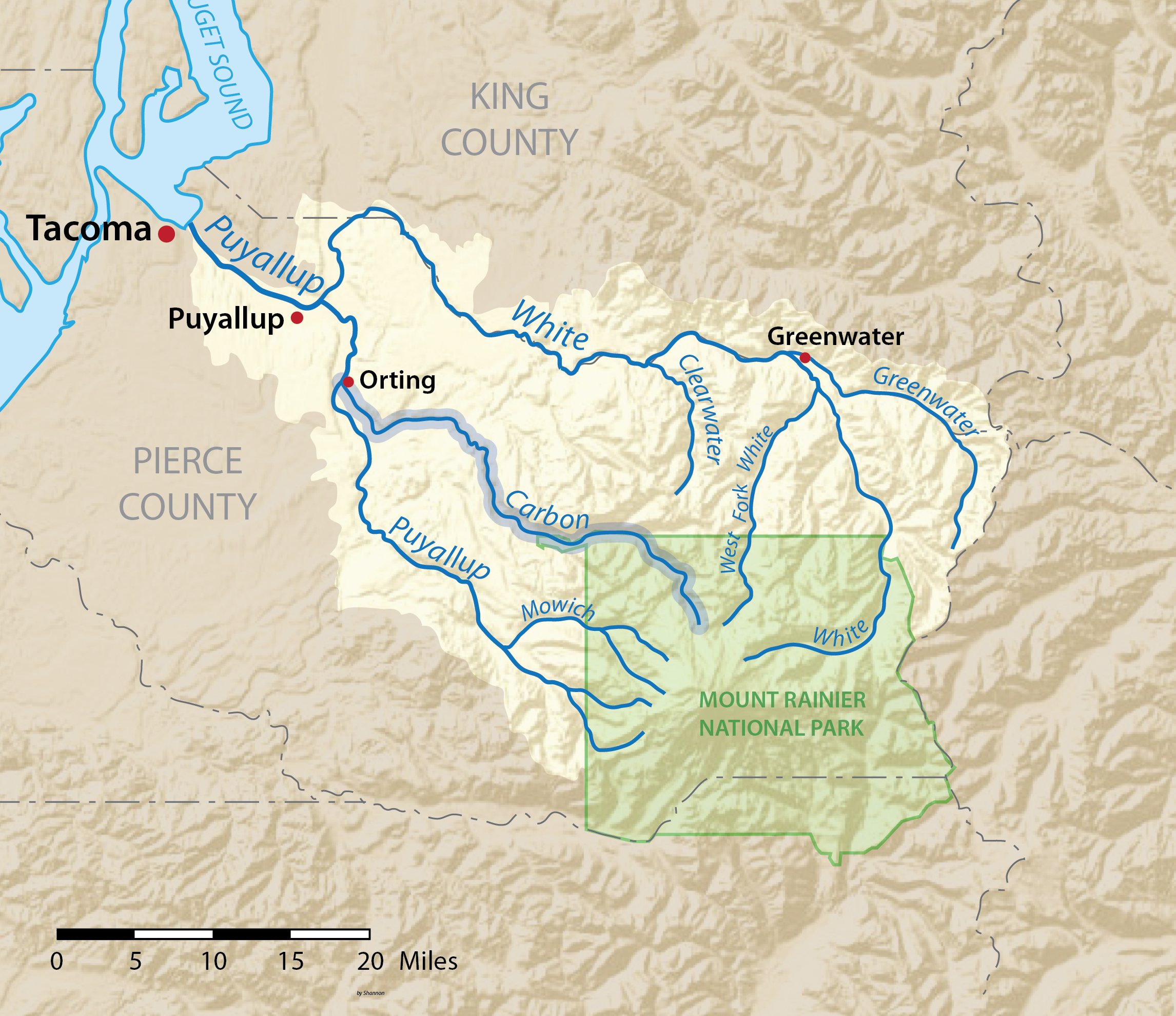 Map of the Puyallup River watershed in Washington, USA with the Carbon River highlighted. Made using USGS National Map data.